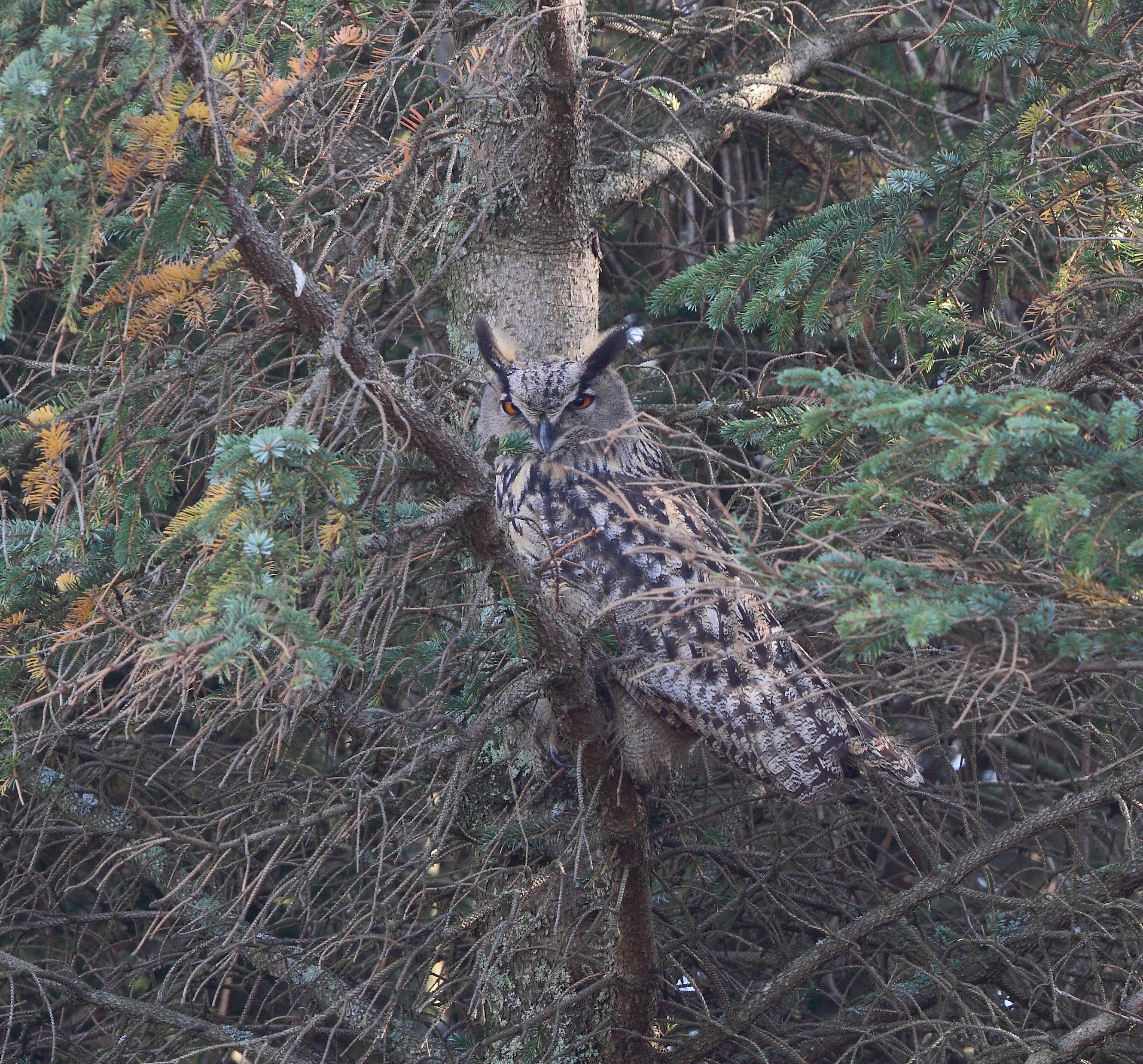 Eurasian Eagle-owl Bubo bubo, Lista, Norway